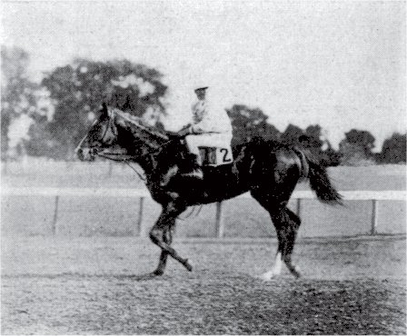 American Thoroughbred racehorse, Ballot (Voter-Cerito) in 1908. Ballot was the damsire of Bull Lea.